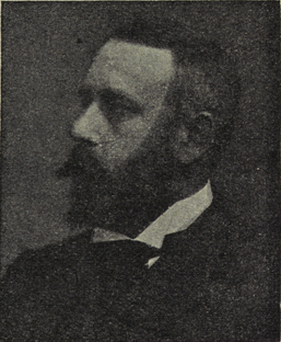 Portait of Johannes Paulus Lotsy (1867 – 1931)